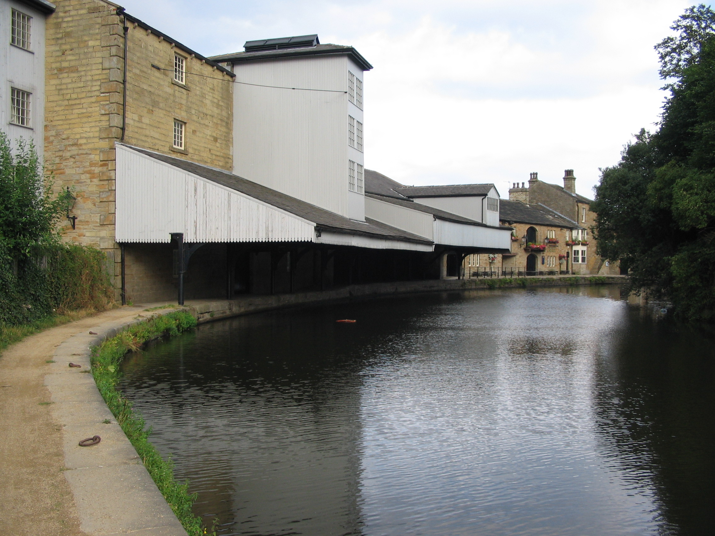 Leeds & Liverpool Canal te Burnley - eigen foto - augustus 2006